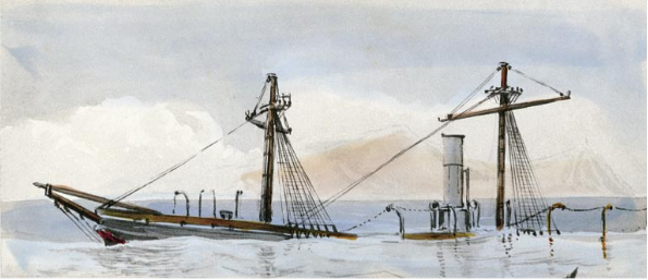 Lo último de la Unión; se hundió en aguas poco profundas con sus palos mayor y de mesana todavía arbolados.